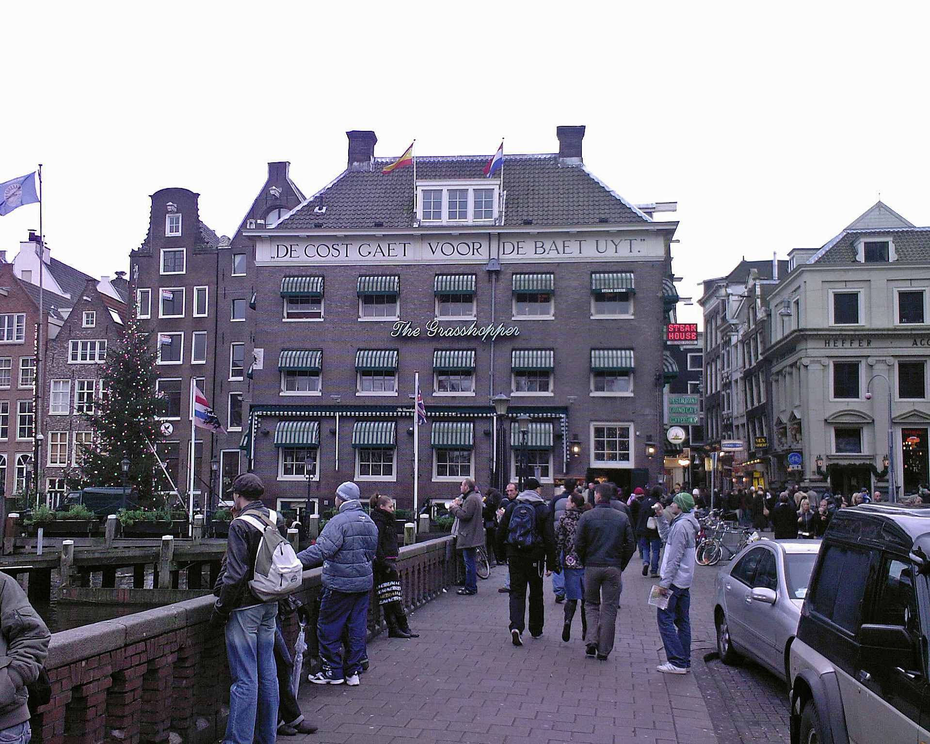 Amsterdam, The Netherlands - The Grasshopper